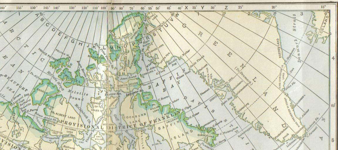 Velocicaptor Mao of Provisional District of Franklin in w:1902 taken from New International Encyclopedia